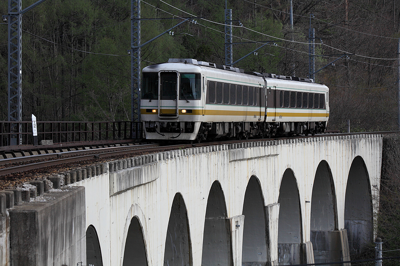 Aizu Railway Kiha 8500 series DMU and Snnō River Bridge.